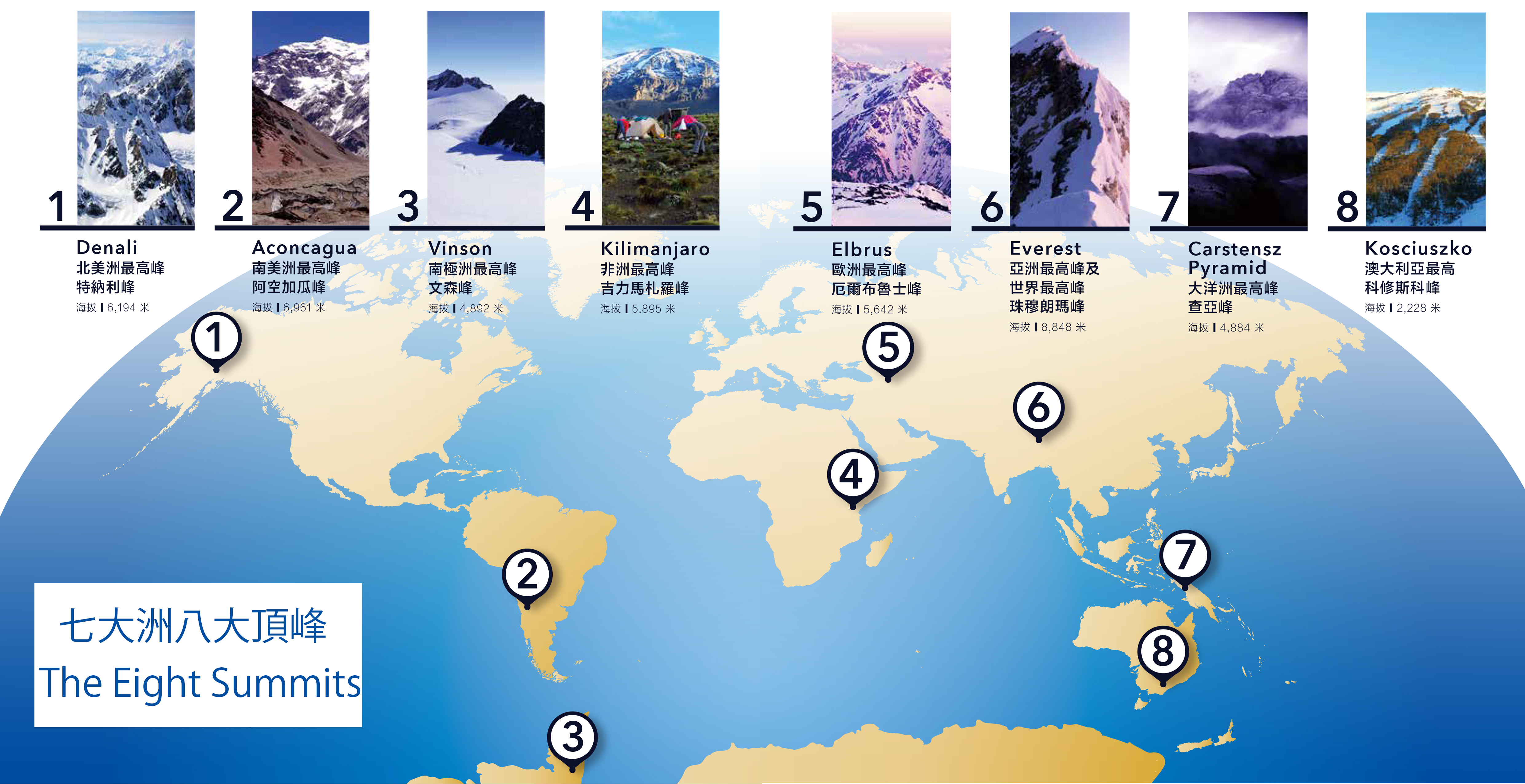 location of the eight summits in the world